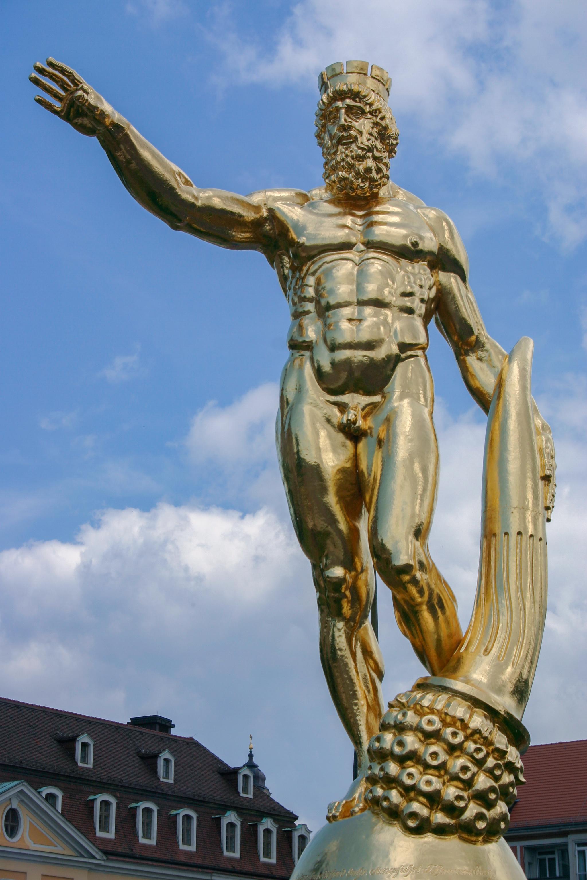 The golden Rathausmann sculpture of the city hall Dresden/Germany, Heracles holding a cornucopia, right before being relocated to the top of the city hall building.